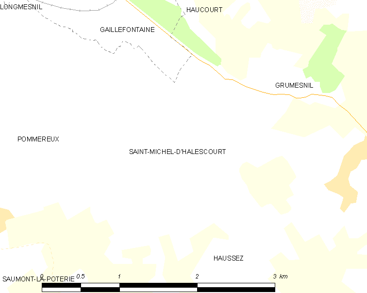 Map of French municipality Saint-Michel-d'Halescourt